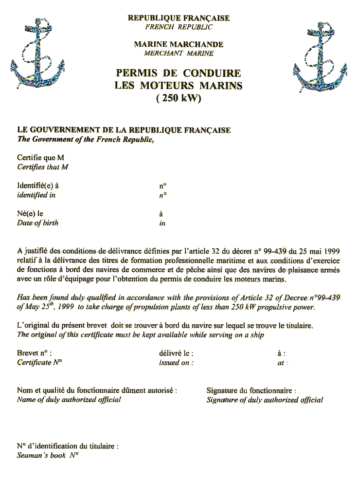 Marine diesel engines 250 kW certificate.